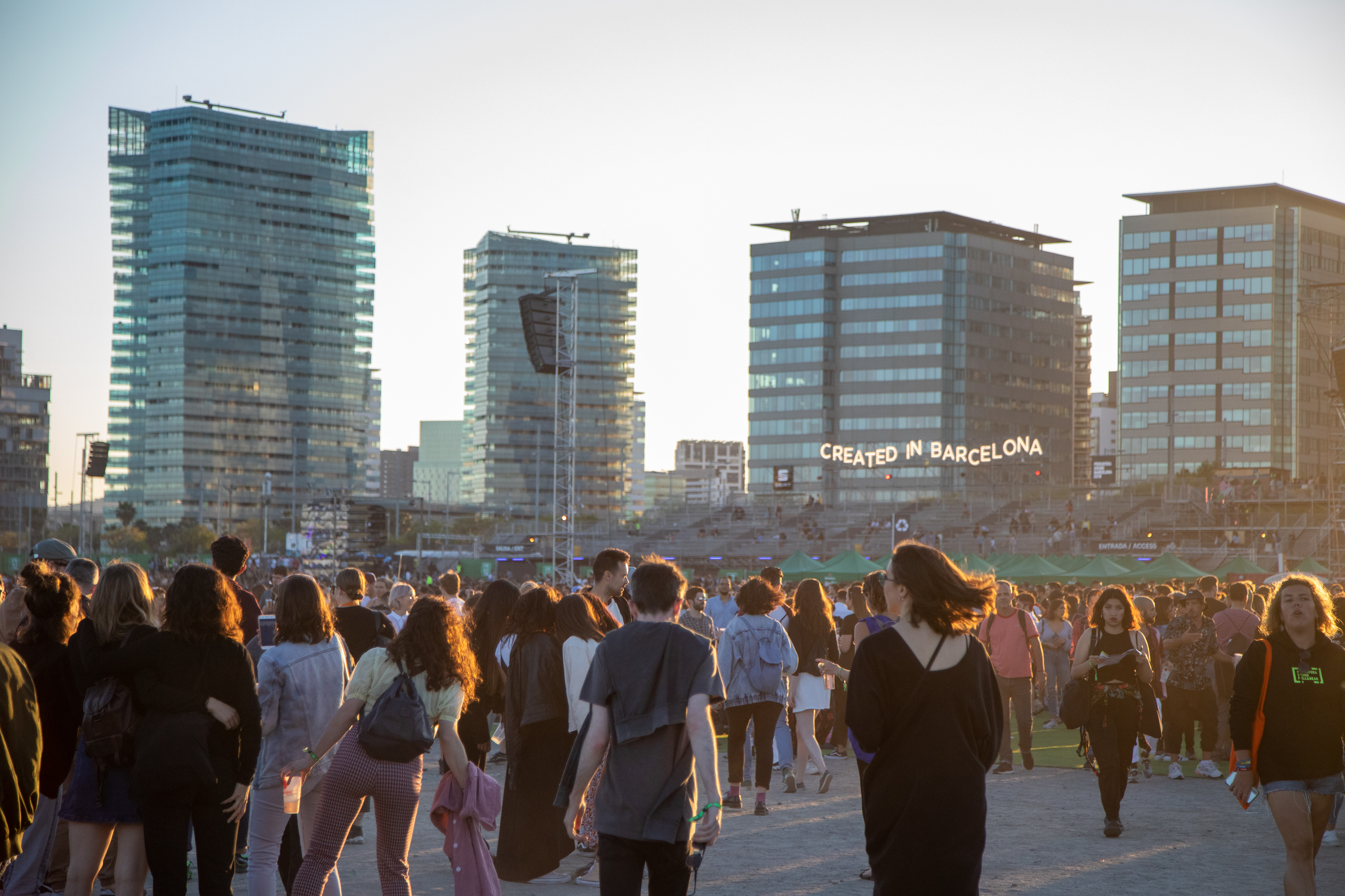 Main stages area at Primavera Sound 2019.